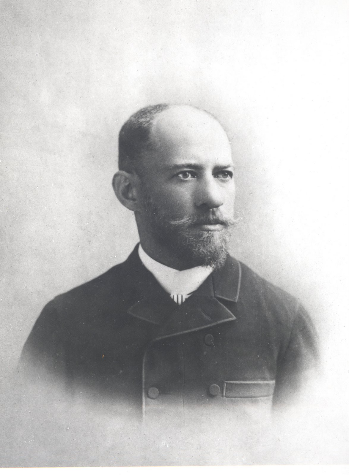 Julio Popper, engineer and explorer, one of the perpetrators of the genocide against the native Selknam people.